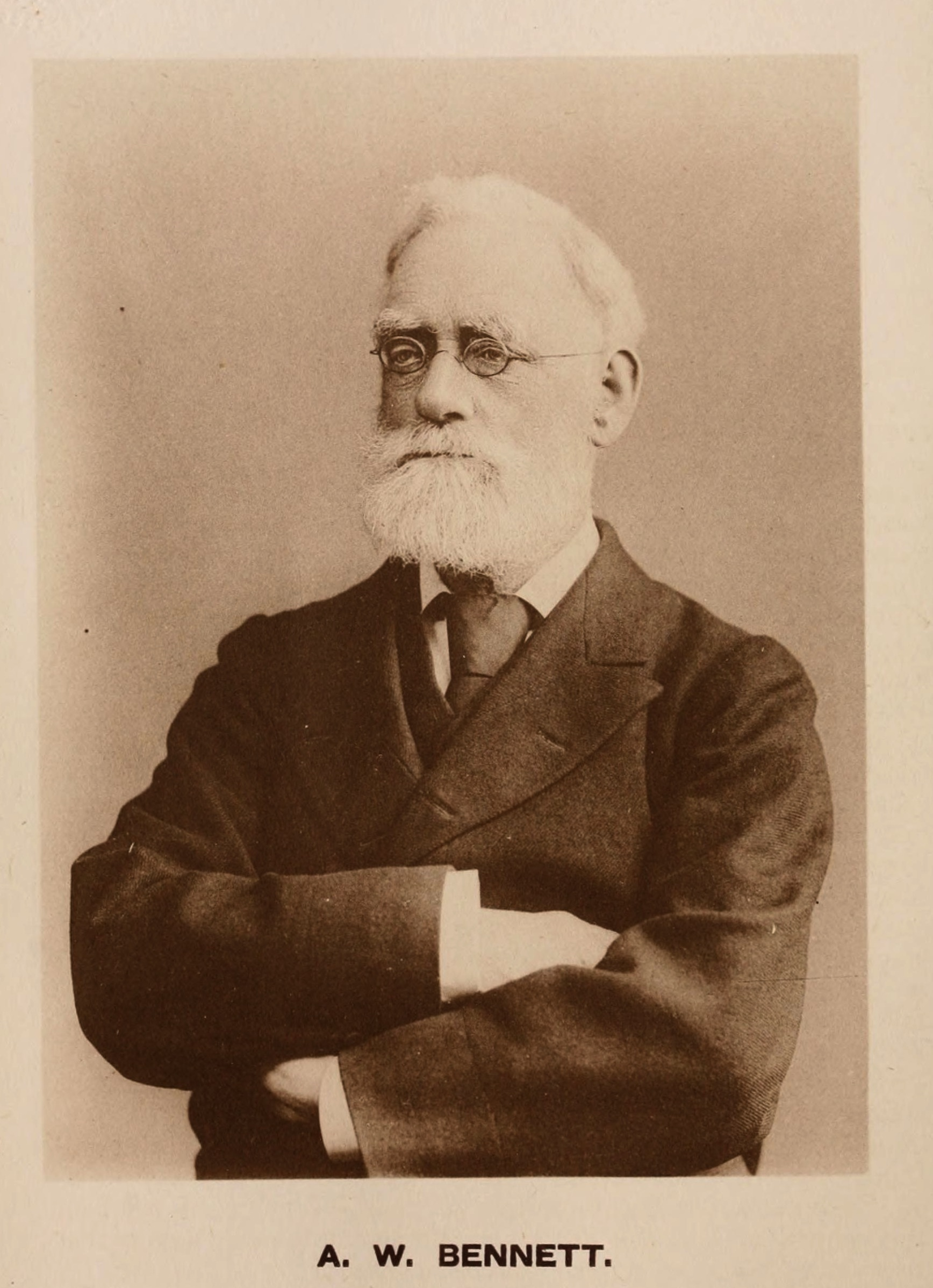 Image of British botanist Alfred William Bennett printed with his obituary in a 1902 issue of Journal of the Royal Microscopical Society. The image was taken from Biodiversity Heritage Library, which actively encourages the reuse of its public domain content, such as this photo.